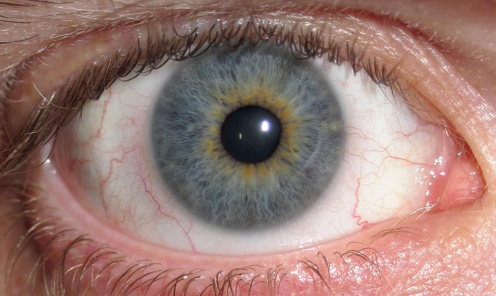 Central heterochromia of the iris; a blue/grey eye with a hazel centre. Self-portrait, I am a 31 year old man. This is my right eye, there is a slight reflection of my nose on the right side of the picture; however, holding up a dark cloth over it just made my fingers holding the cloth be reflected instead, so I gave up and accepted said reflection. =)